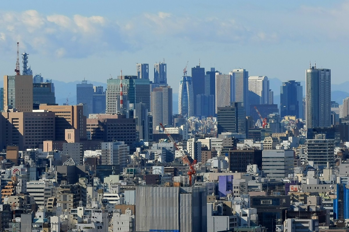 nishi shinjuku city scape